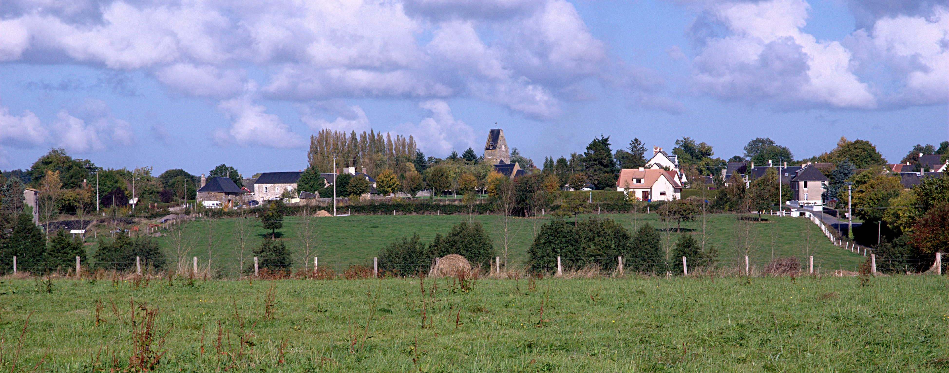 Tracy-Bocage village.